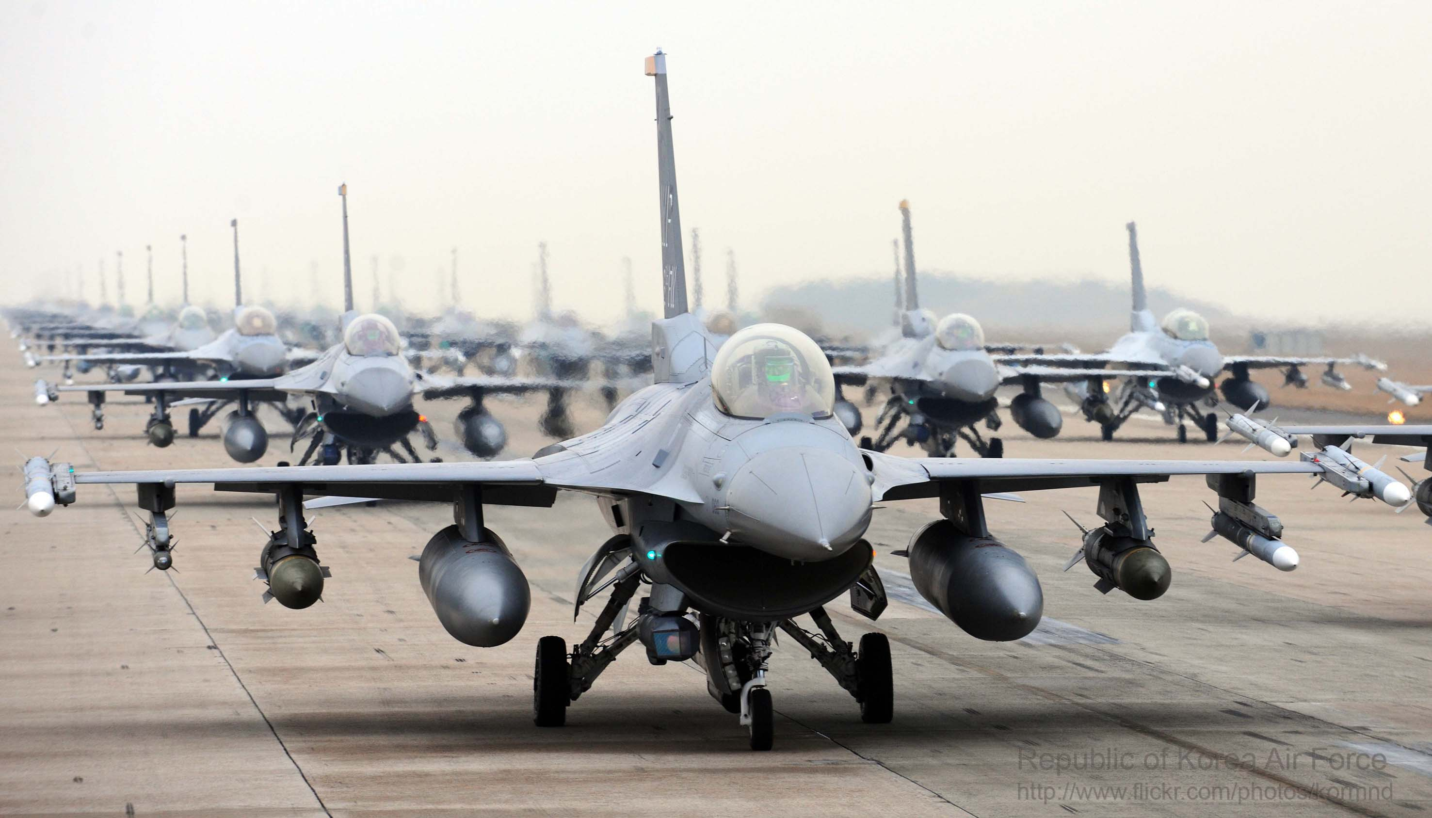 2012. 3. 공군 Pratice Generation, Rep. of Korea Air Force